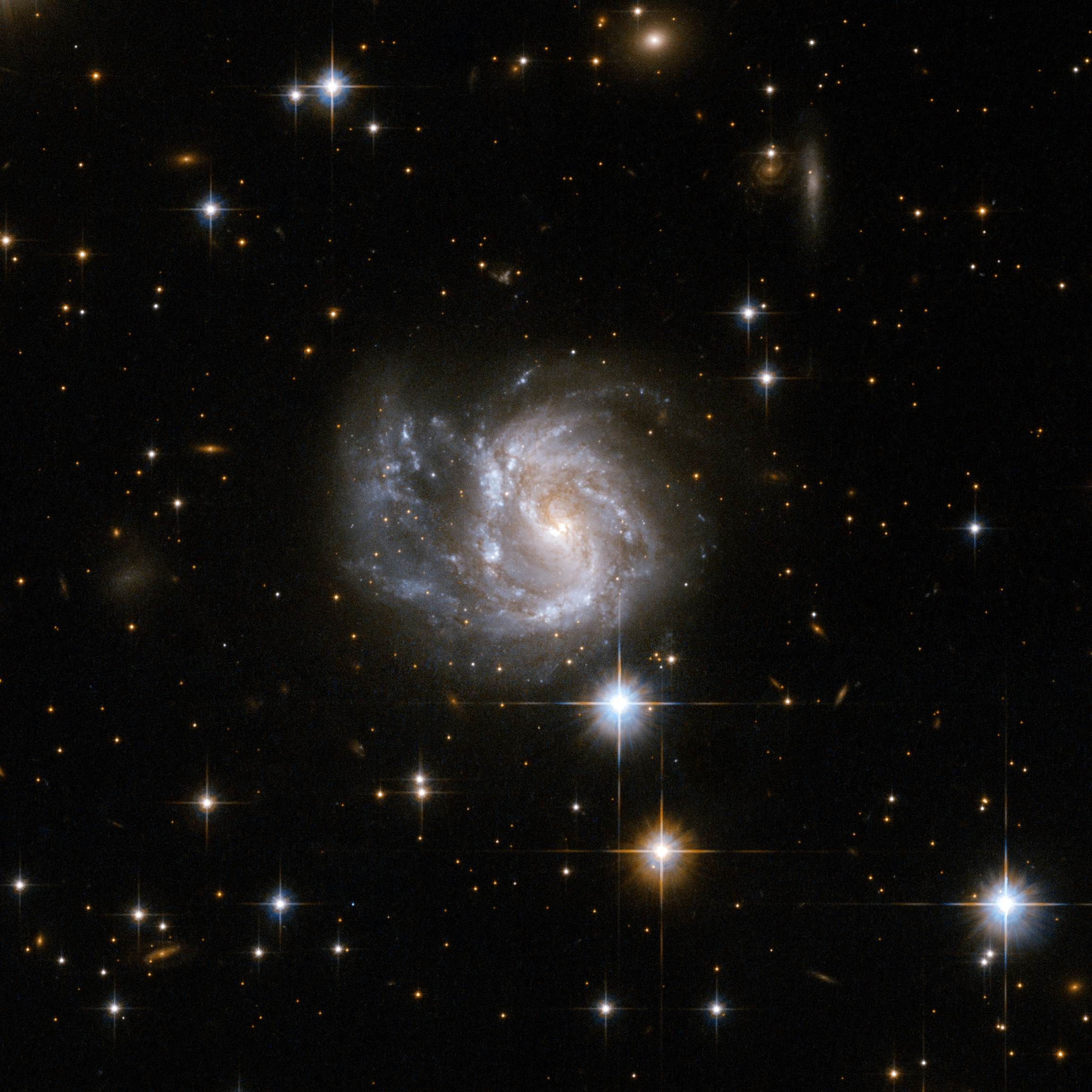 IRAS 20351+2521 is a galaxy with a sprawling structure of gas, dust and numerous blue star knots. IRAS 20351+2521 is located in the constellation of Vulpecula, the Fox, 450 million light-years away from Earth. This image is part of a large collection of 59 images of merging galaxies taken by the Hubble Space Telescope and released on the occasion of its 18th anniversary on 24th April 2008. About the objectObject nameIRAS 20351+2521, 2MASX J20371771+2531377Object descriptionInteracting GalaxiesPosition (J2000)20 37 18.02 +25 31 38.5ConstellationVulpeculaDistance450 million light-years (150 million parsecs)About the dataData descriptionThe Hubble image was created using HST data from proposal 10592: A. Evans (University of Virginia, Charlottesville/NRAO/Stony Brook University)InstrumentACS/WFCExposure date(s)April 14, 2002Exposure time33 minutesFiltersF435W (B) and F814W (I)